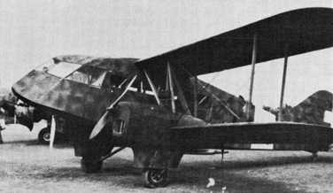 Italian Breda Ba.44 transport aircraft in Regia Aeronautica (Italian Royal Air Force) camouflage